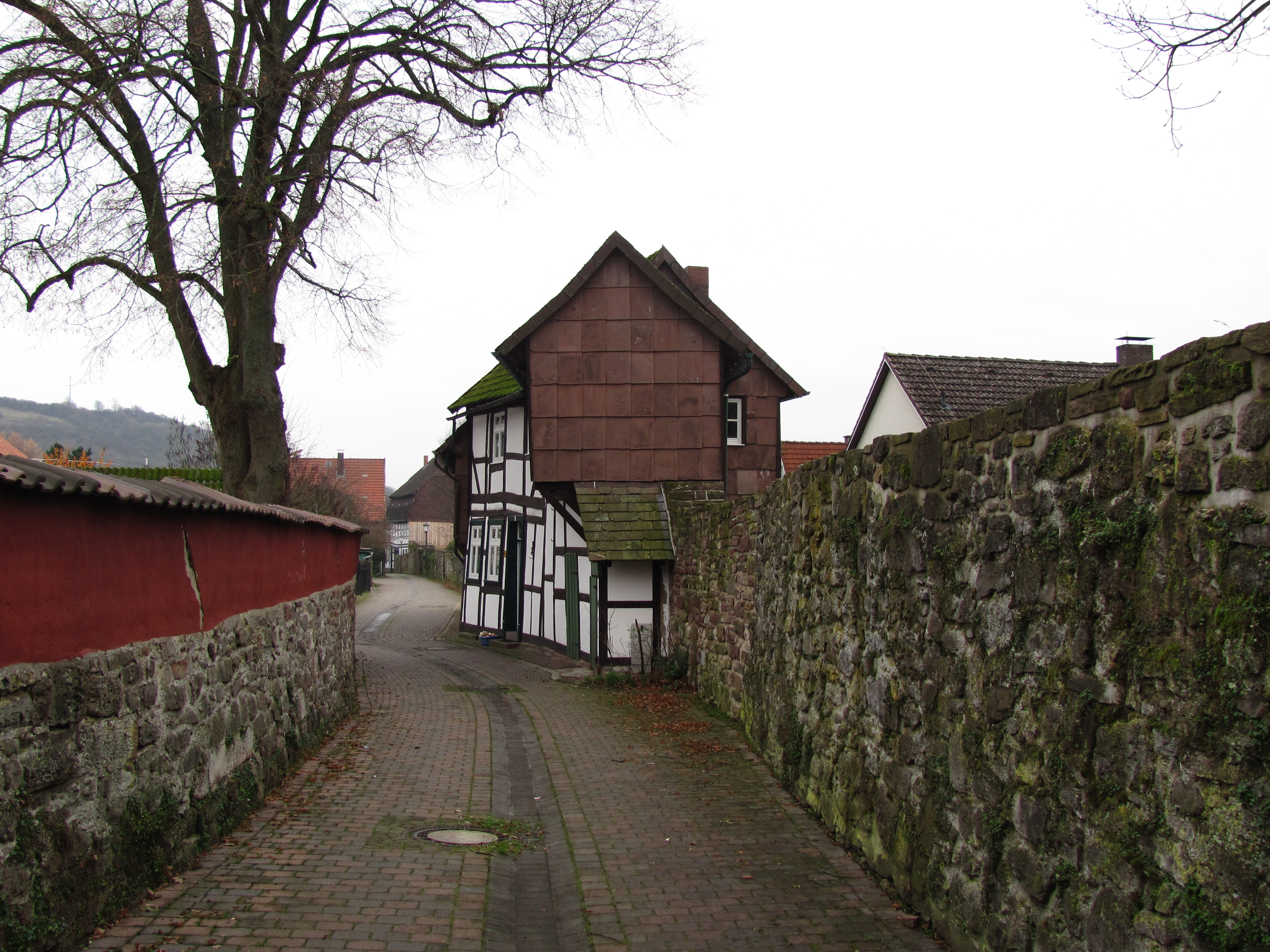 Medieval Wall around Dassel, Germany. also at